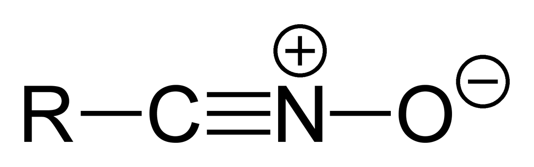 Structural formula of a general nitrile oxide, RCNO